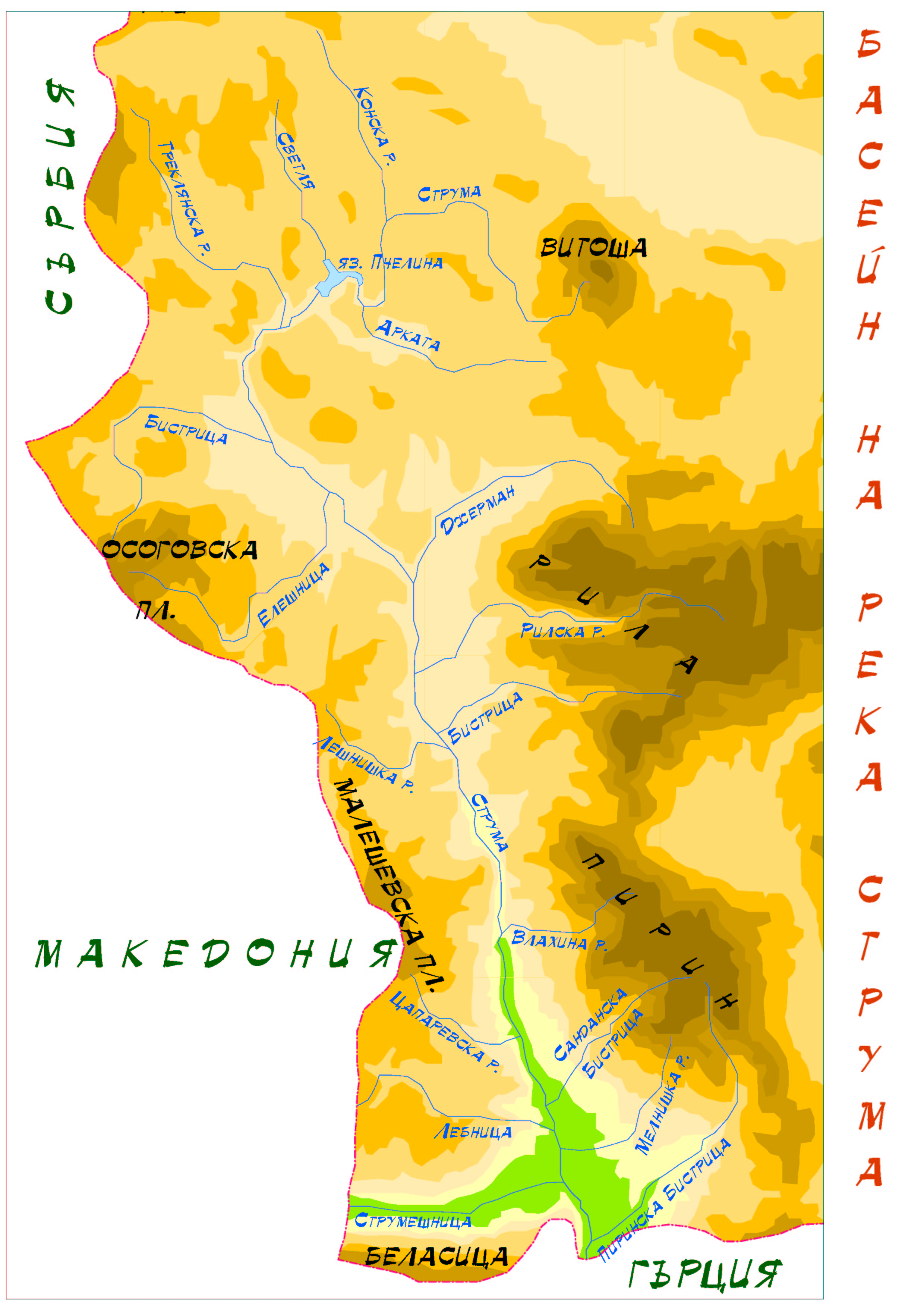 Map of river Struma in Bulgaria